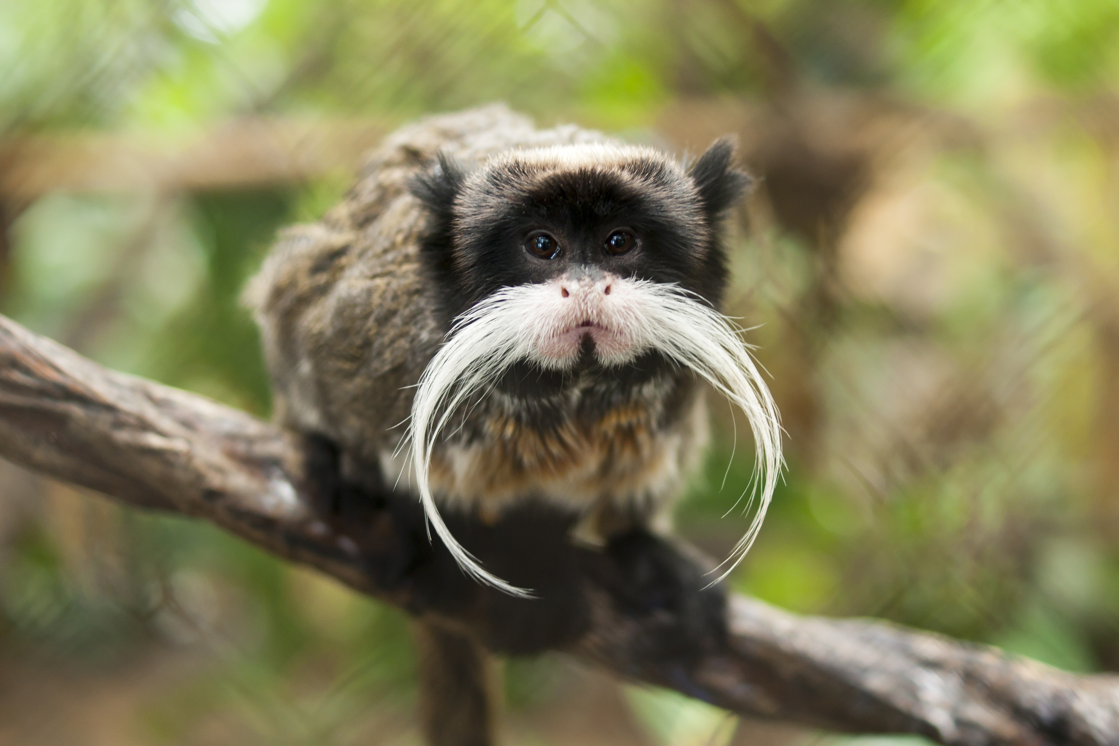 Black-chinned emperor tamarin (Saguinus imperator imperator) in Dallas World Aquarium.